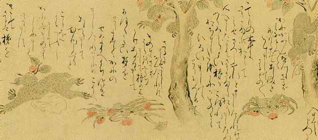 Sarukanigassen (The Crab and the Monkey) Emaki